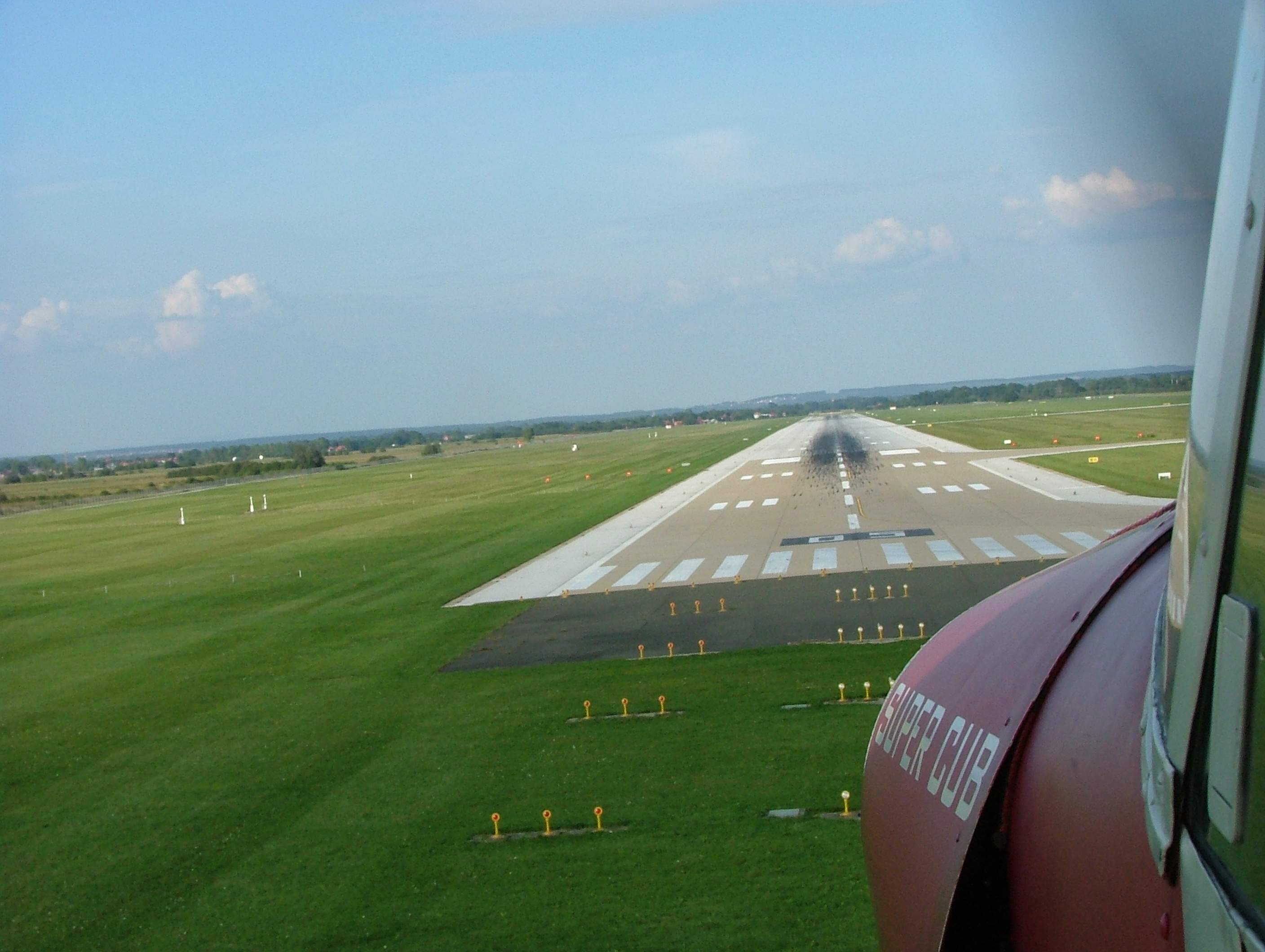 Final approach at Zagreb Airport